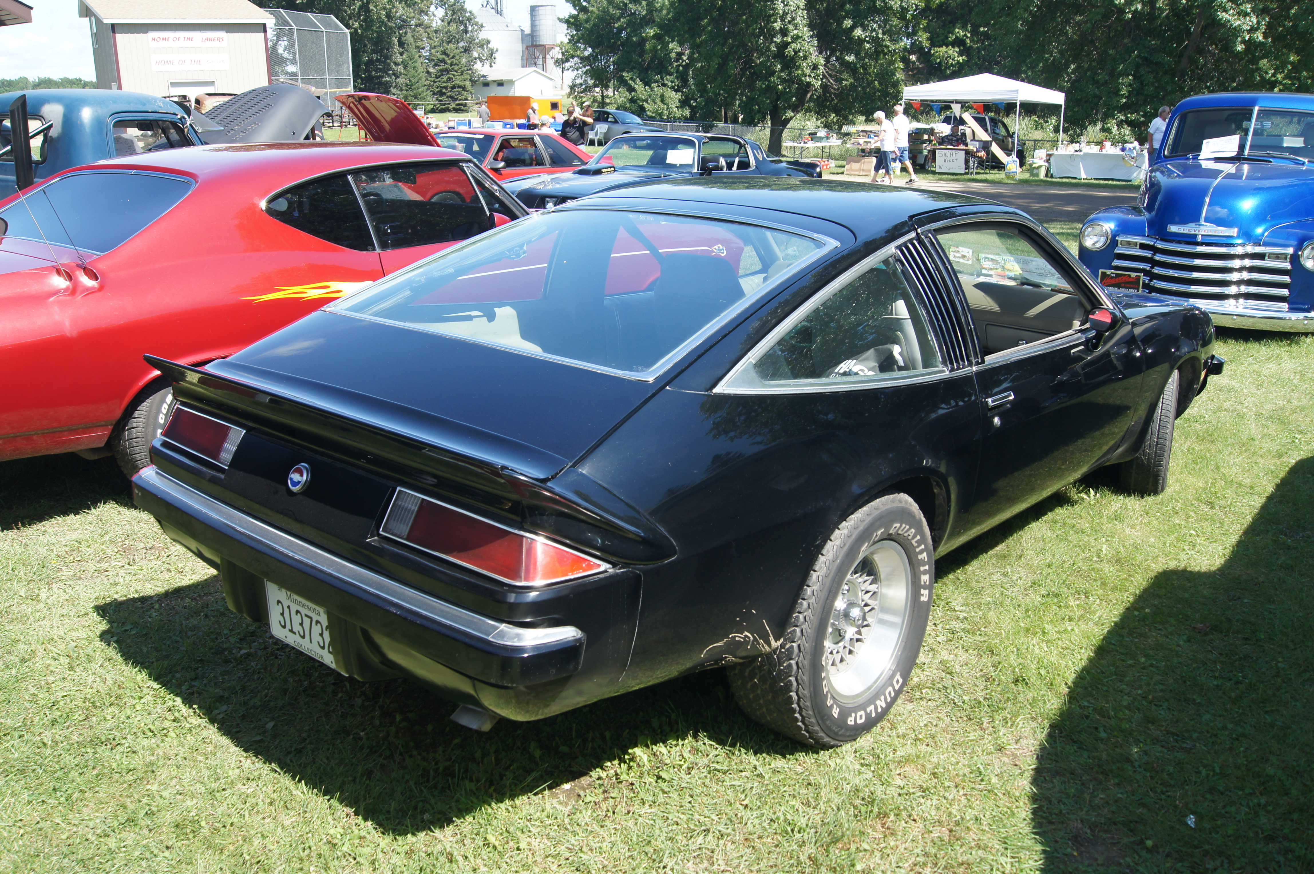 6th Annual Trolls Classic Car Show Hosted by: Sunburg Trolls Car Club Club Website: Labor Day, September 1, 2014 Sunburg Community Center Sunburg Minnesota More car pictures separated by make by clicking on this Flickr link